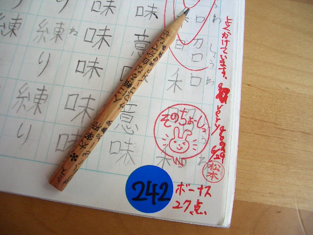 A typical Kanji practice notebook of a 3rd grader. From the right column, 昭和(Showa), 意味(meaing), 味(taste), 練り(knead). The teacher writes in red "Nice penmanship. Very good. June 29. (Teacher's signature stamp says "Matsumoto" ) In this class, the number on the blue sticker shows how much a student has practiced. In this photo he wrote 242 columns of Kanji and received 27 bonus points. The rabbit stamp says "Keep up the good work!" And the pencil from Dazaifu reads "Don't rely on others. Do it on your own."